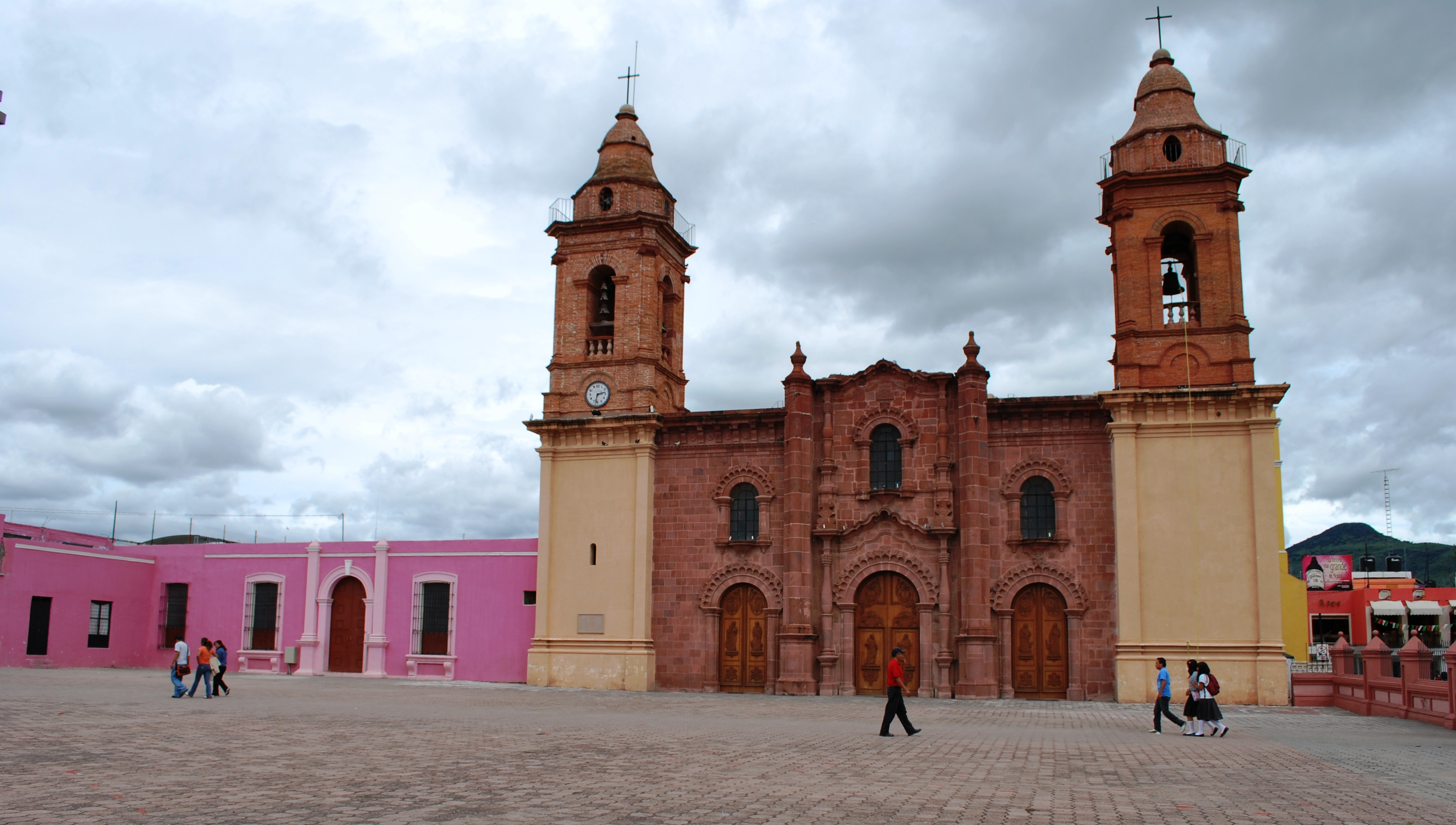 View of the Cathedral of Huajuapan from atrium in Huajuapan de León, Oaxaca